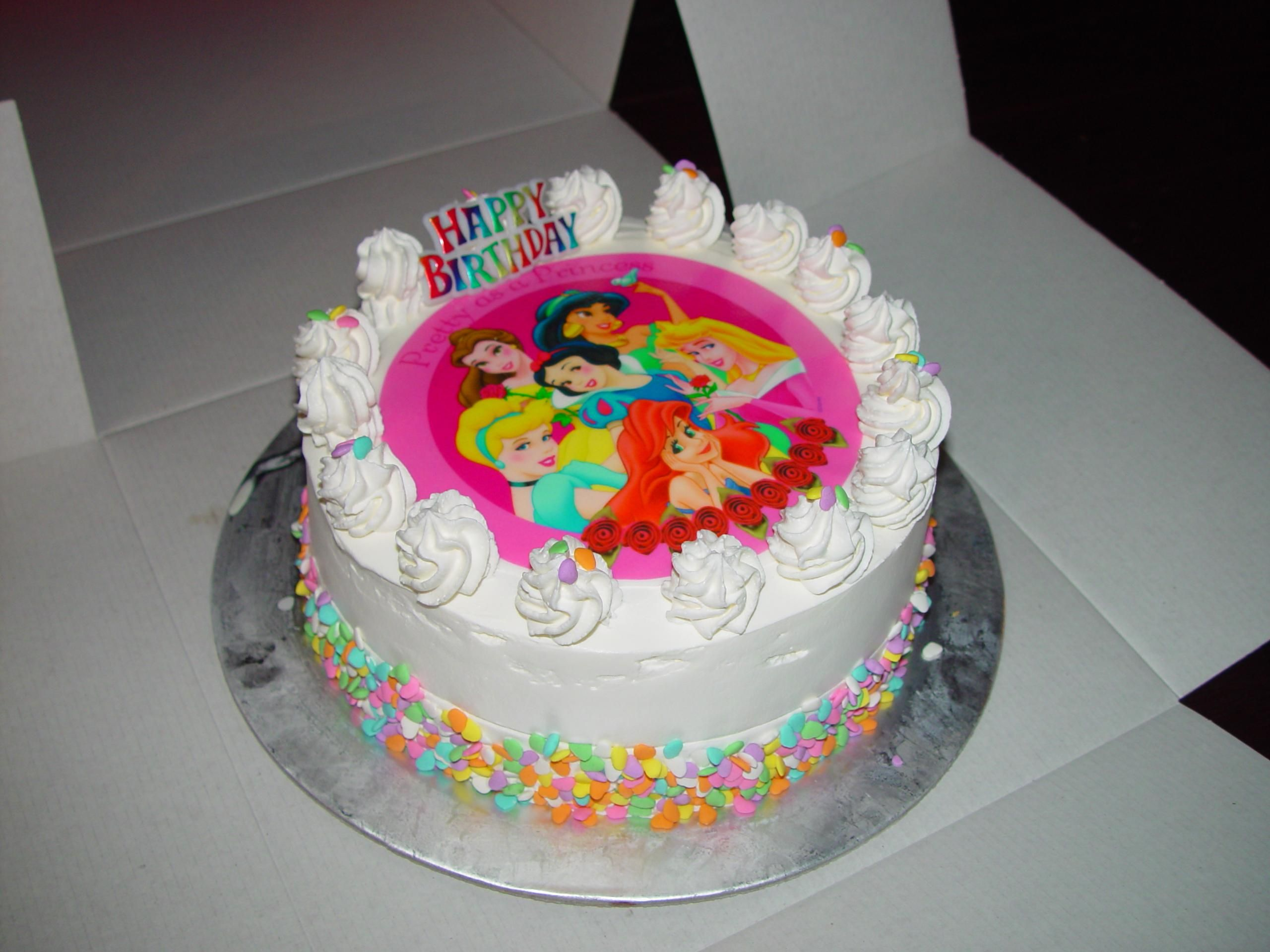 Image title: Princess ice cream cake Image from Public domain images website